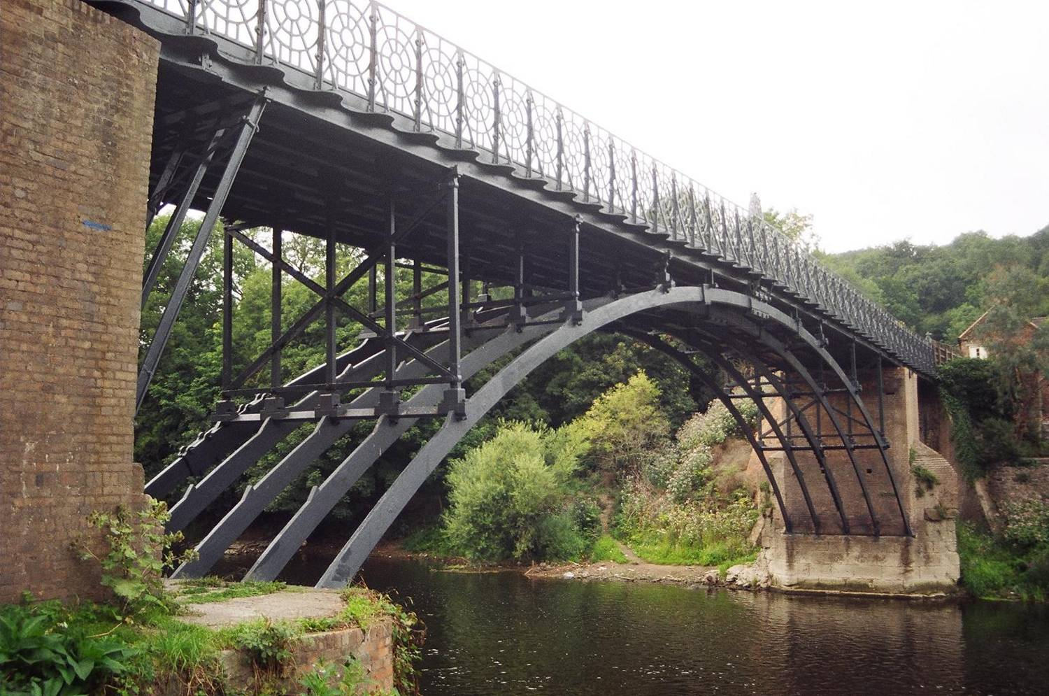 own photo taken 2004